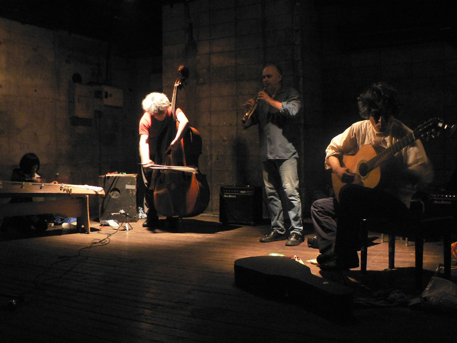 Plan B, Tokyo May 2007. Michel Doneda